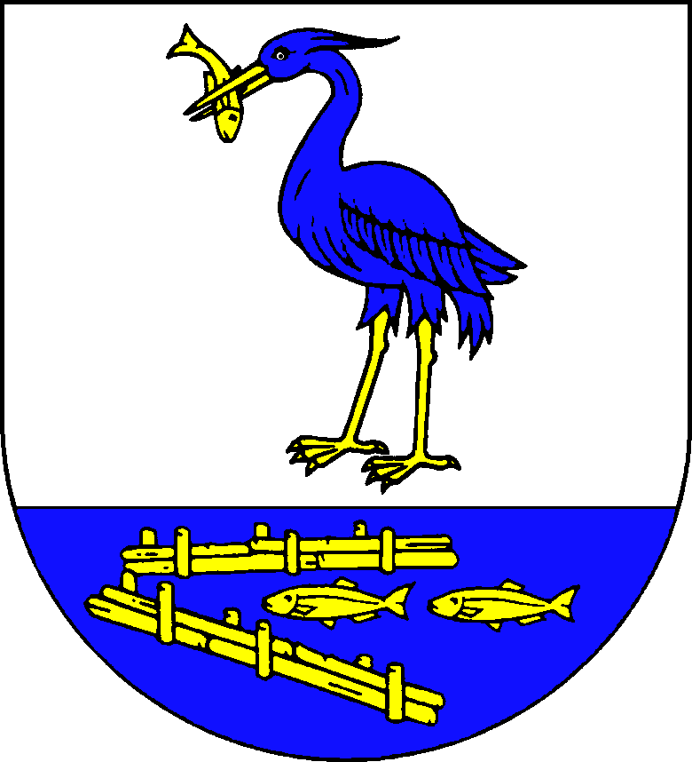 Coat of arms of the municipality Rabel in Schleswig-Holstein, Germany.